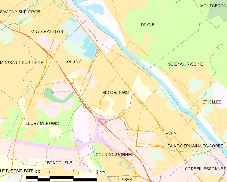 Map of French municipality Ris-Orangis